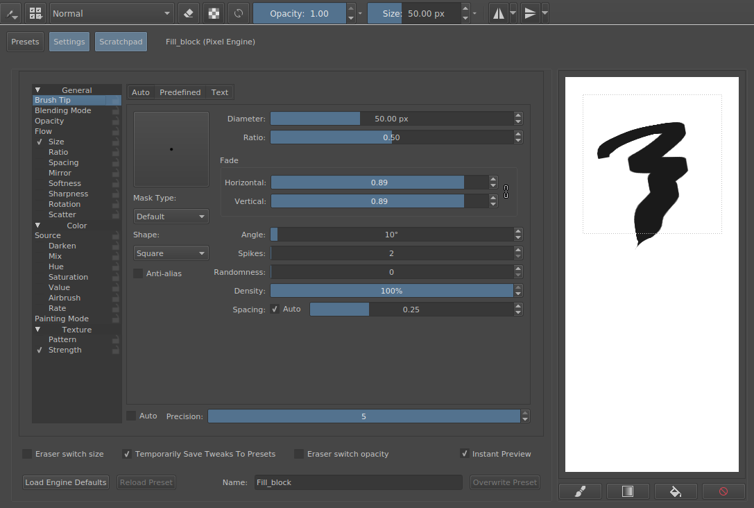 Krita 4.0 pixel brush engine screenshot